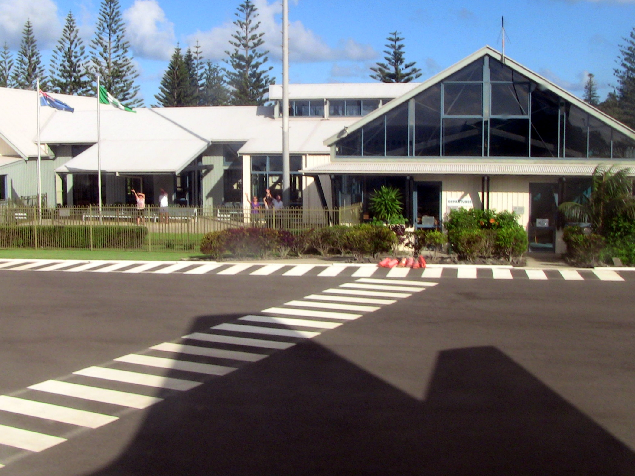 The terminal at Norfolk Island Airport